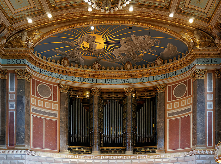 Organ of Friedrich-von-Thiersch-Saal in Kurhaus Wiesbaden (spa house), Germany. (Kurh0062-Dv2)